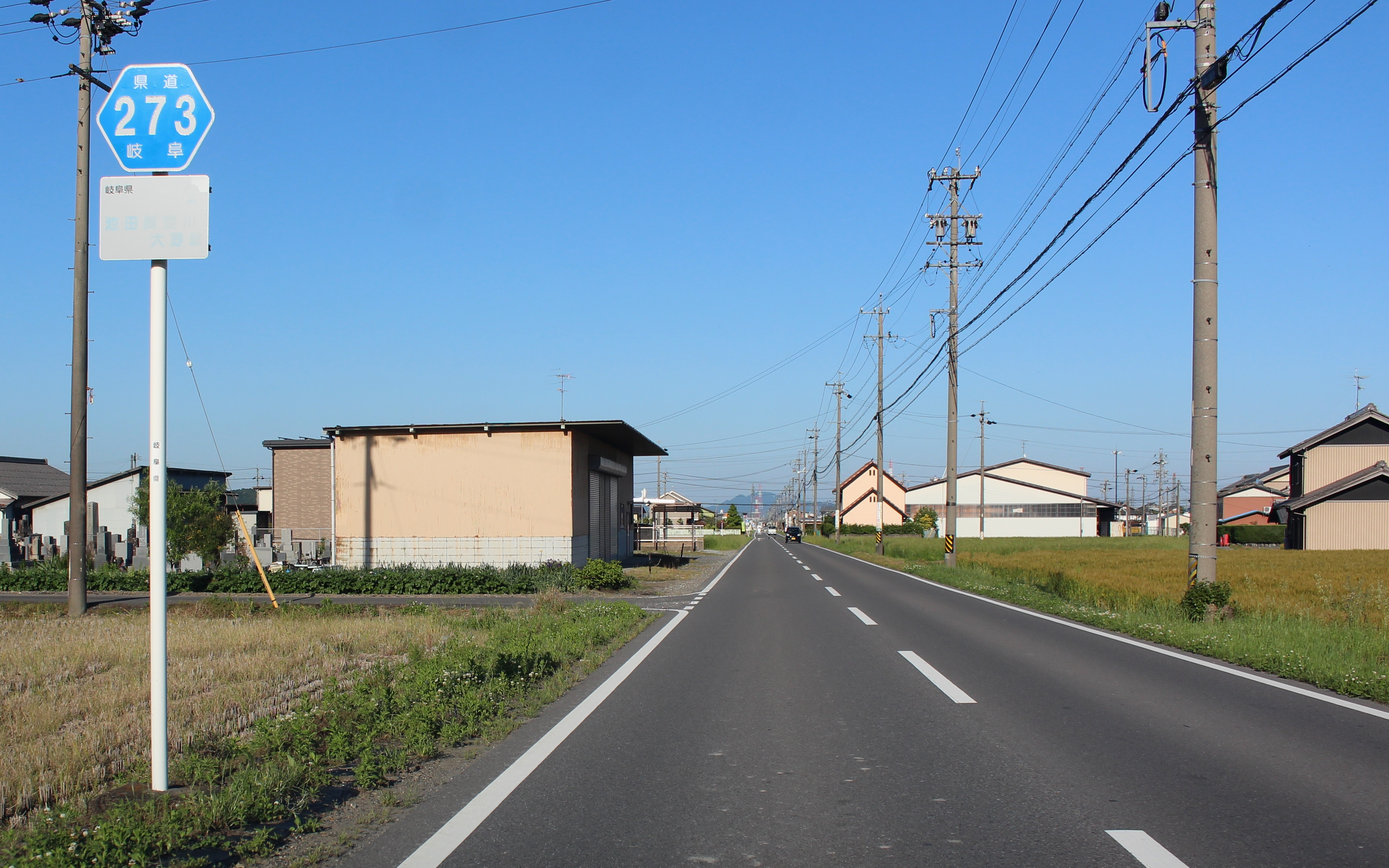 Gifu Prefectural Road Route 273 in Kutsui, Ikeda, Gifu Prefecture, Japan.